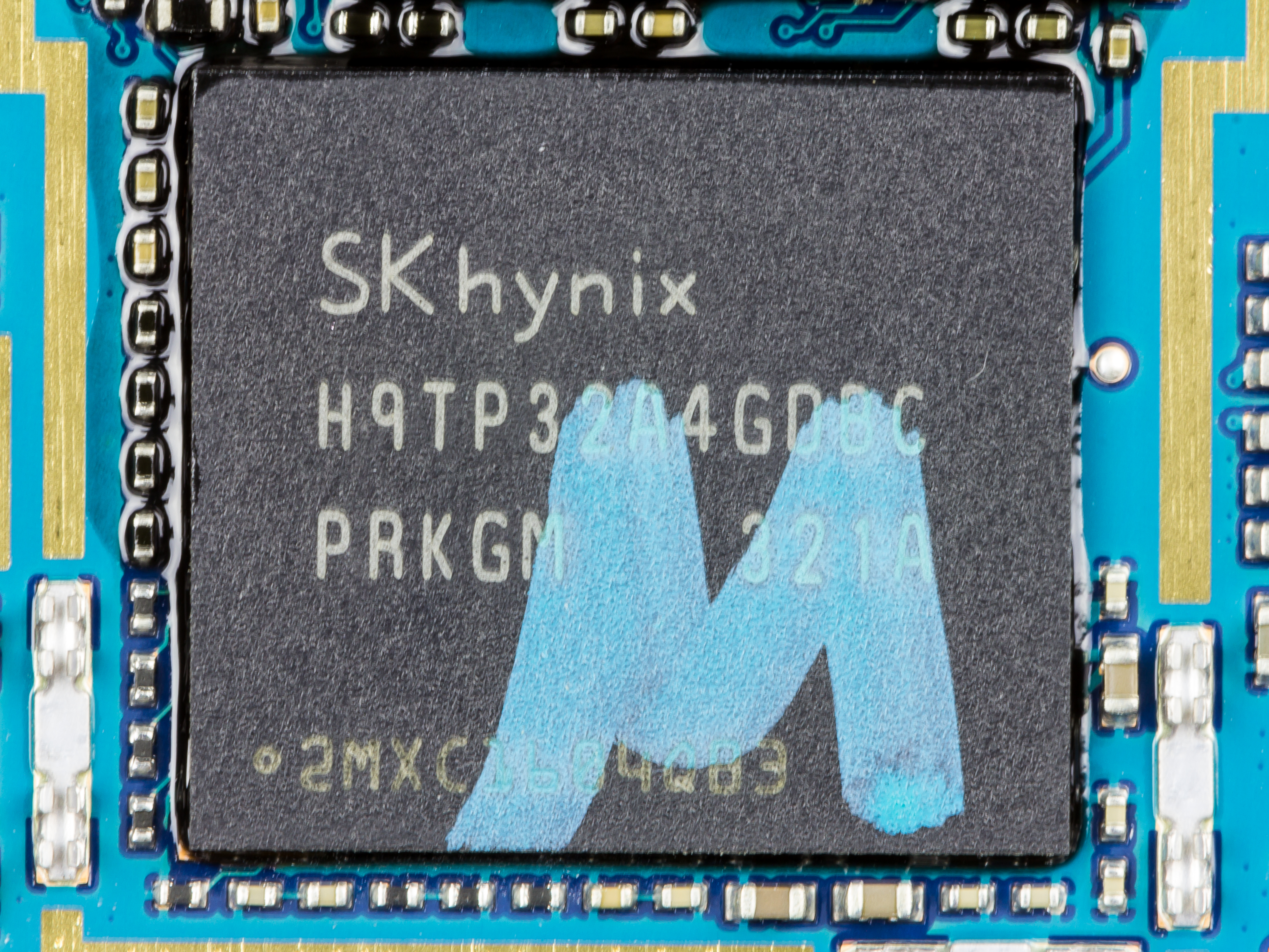 LG E455 Optimus L5 II Dual - SK Hynix H9TP32A4GDBCPR - 4GB eNAND(x8) Flash / 4Gb (x32) LPDDR2-S4B